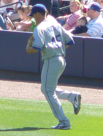 User:Chrisjnelson agreed to license this image of Scott_Proctor.jpg under a free attribution license. Any use of this image must be attributed; this means that Photo by :en:User:Chrisjnelson|Chris Nelson should be in the picture caption. 00:56, 21 April 2008 . . Chrisjnelson . . 352×462 (178 KB)